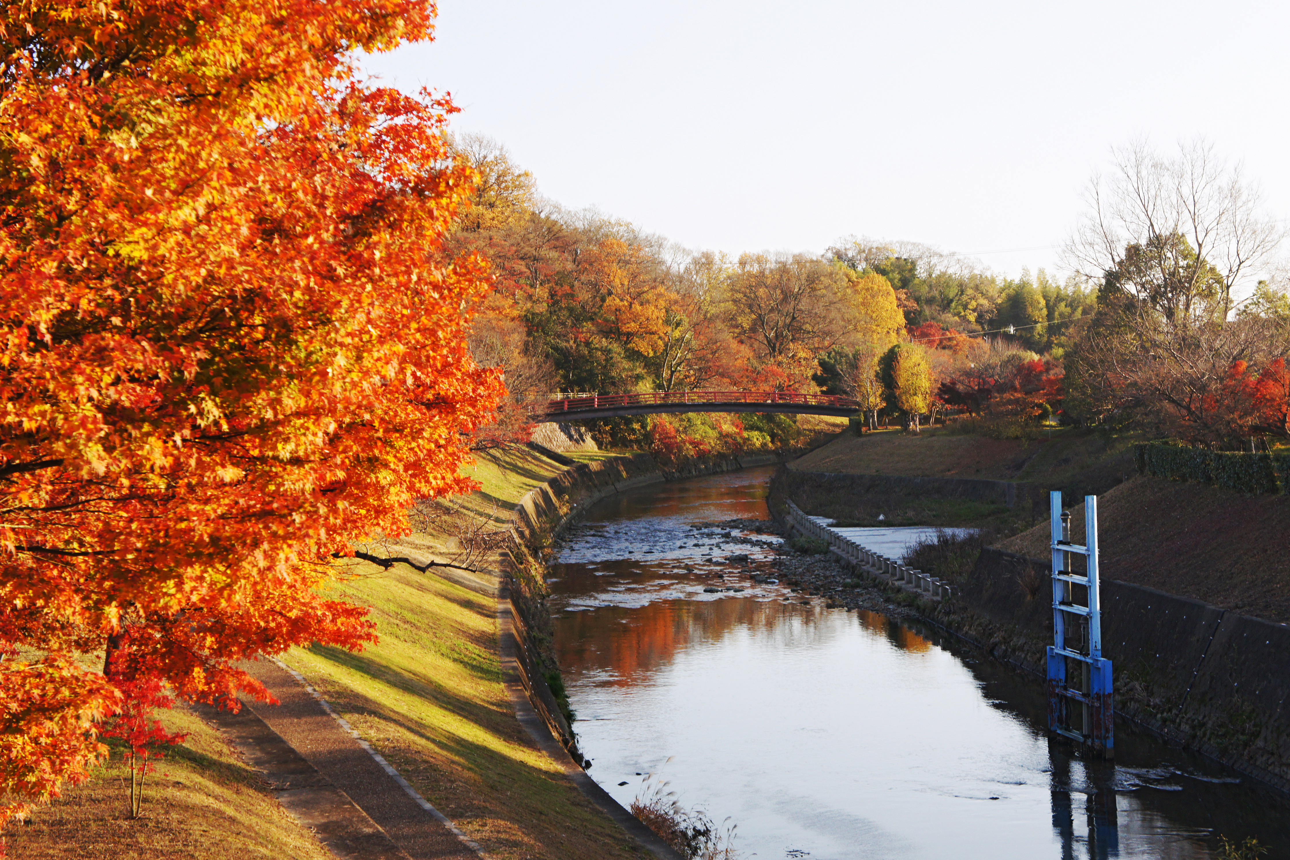 Nara Prefectural Tatsuta Park in Ikaruga, Nara prefecture, Japan.